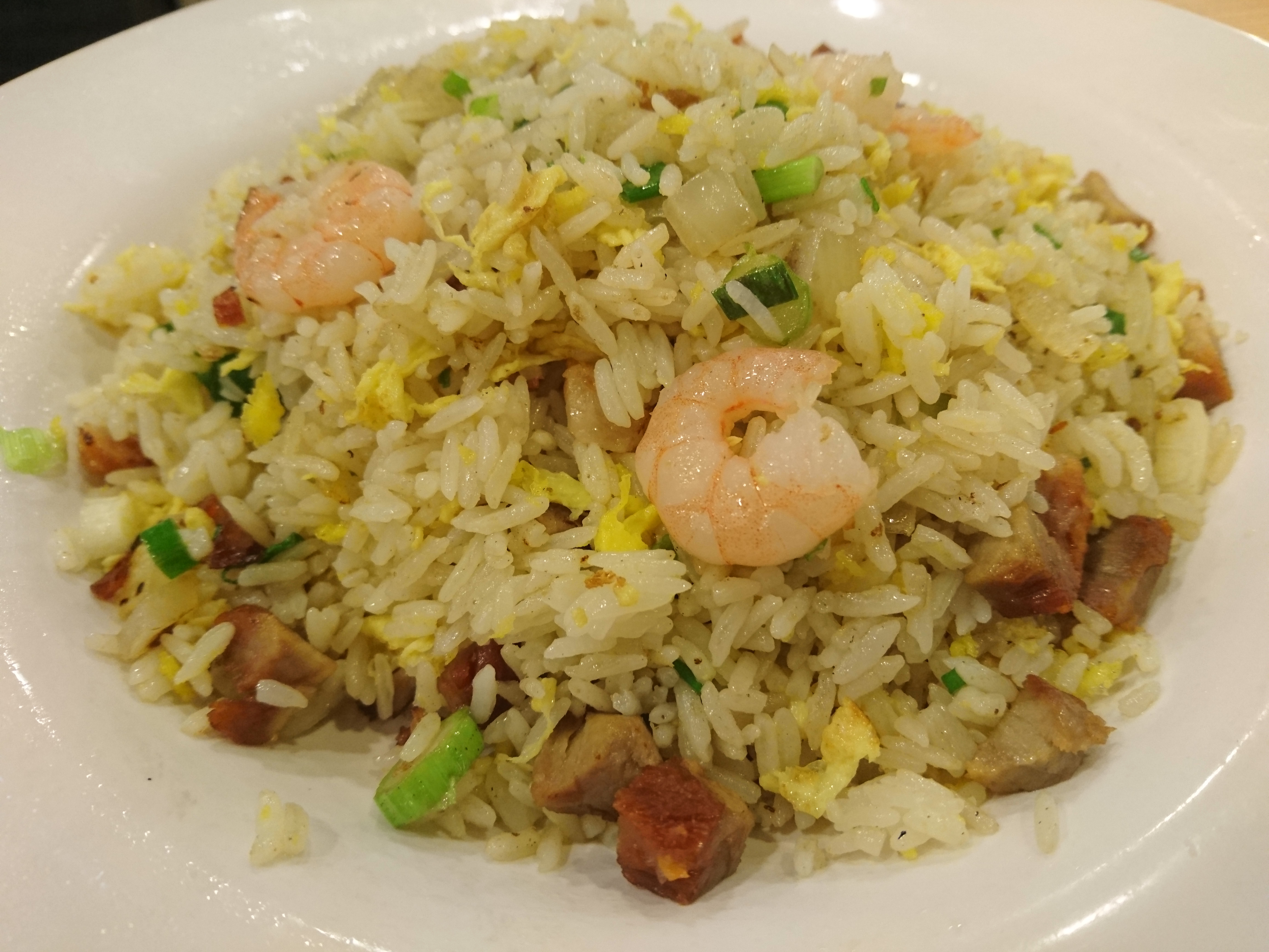 Yeung Chow Fried Rice in Hong Kong Fast Food Shop